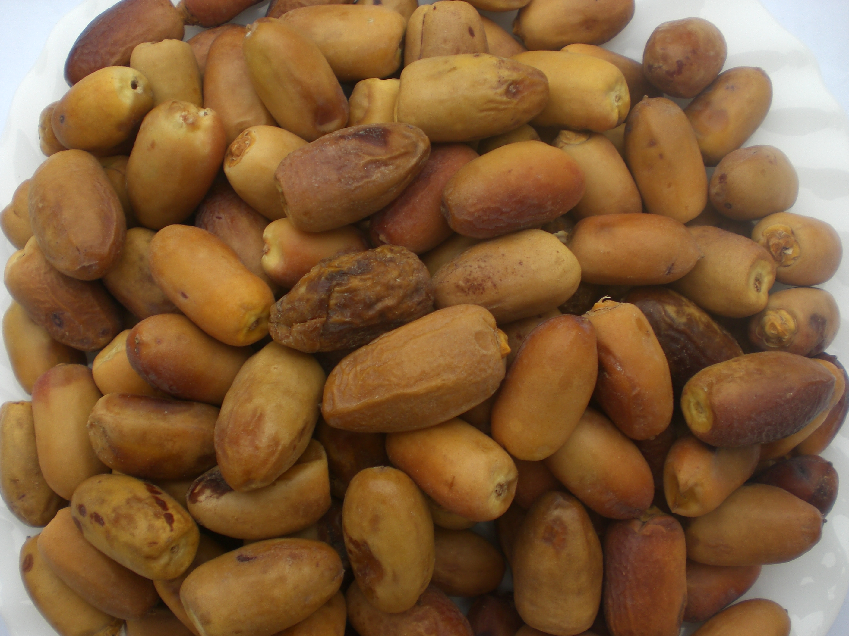 Tunisian dates called Bejjou